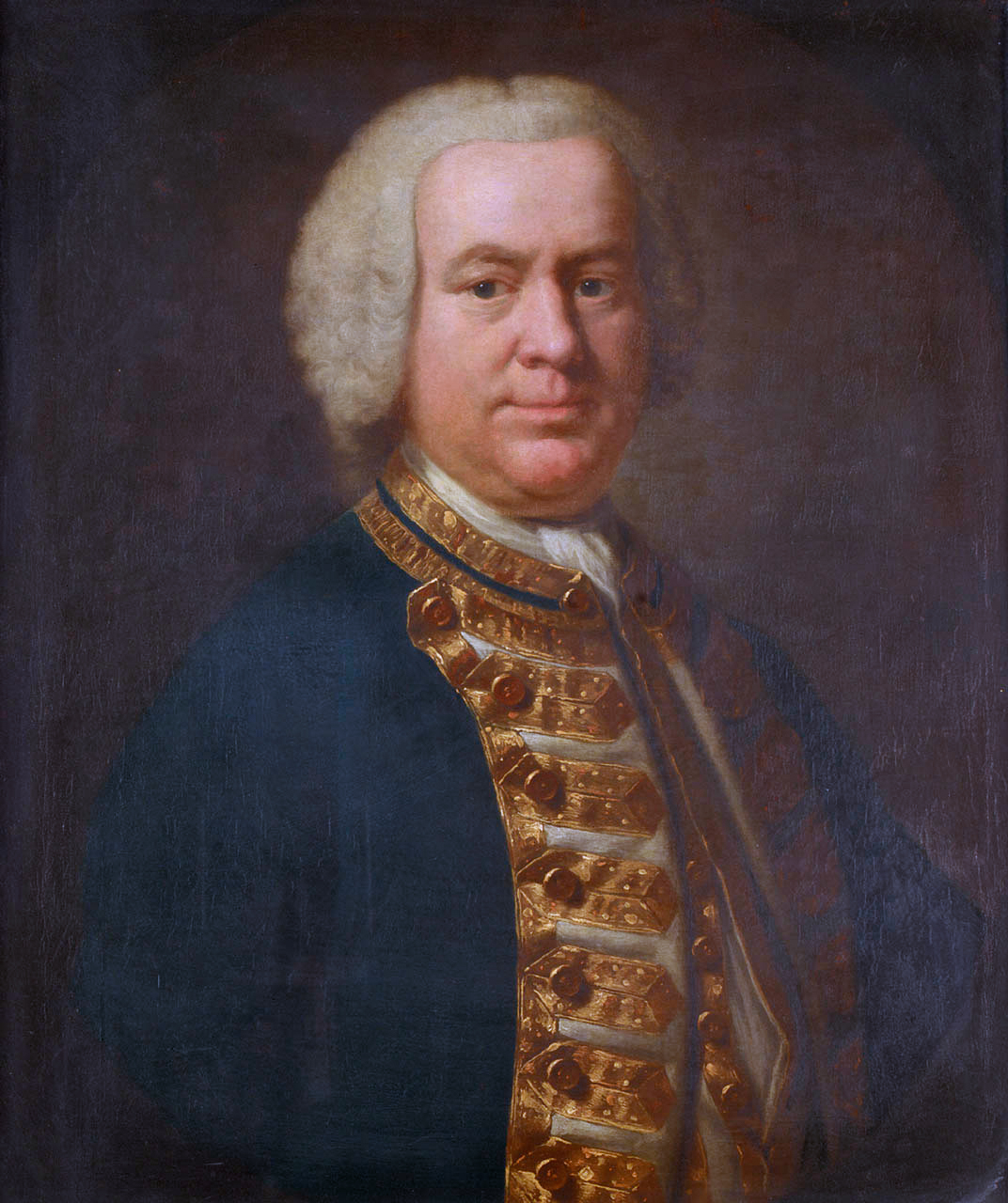 Rear-Admiral Charles Holmes (1711-1761) oil on canvas 76 x 63.5 cm after 1758